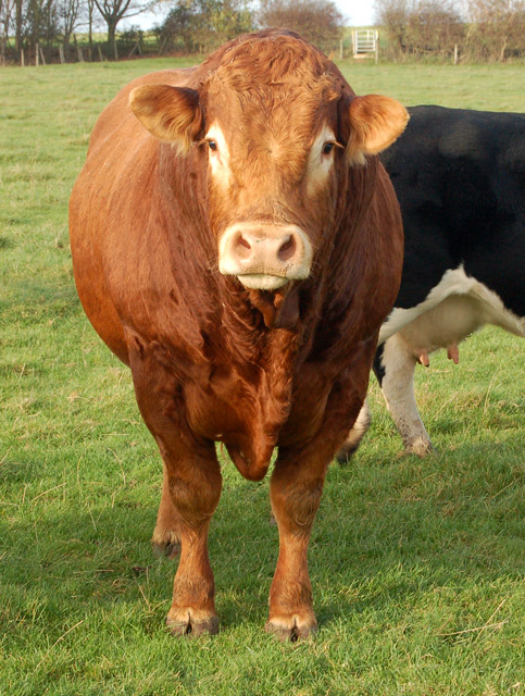 A docile Limousin bull on Bridge Farm, Hunningham